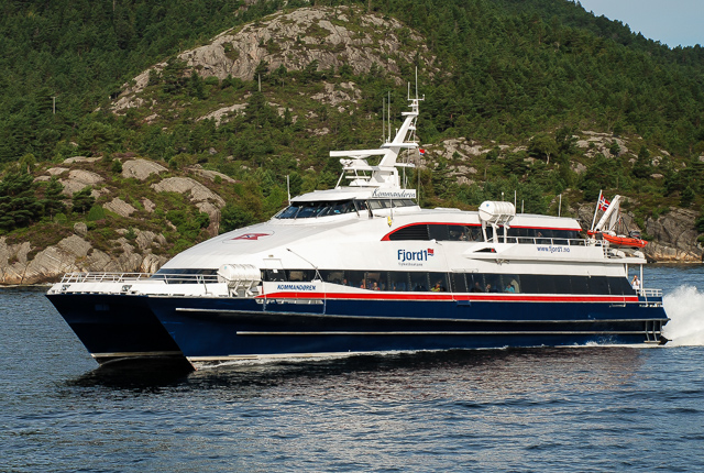 MS Kommandøren in 2010